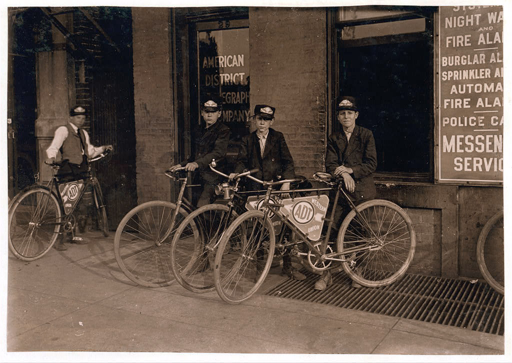 Отделение "Америкен Дистрикт Телеграф Компани" в Индианаполисе, штат Индиана (ADT). Мальчики-посыльные (A.D.T. мessengers) на велосипедах.